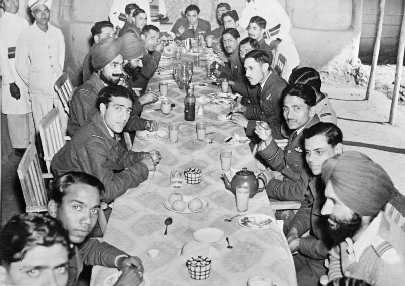 The Indian Air Force and Royal Indian Air Force, 1939-1945. Officers of No. 1 Squadron IAF sit down to tiffin in their mess at Imphal Main, India. At lower right sits 1 IAF's Commanding Officer, Squadron Leader Arjan Singh.